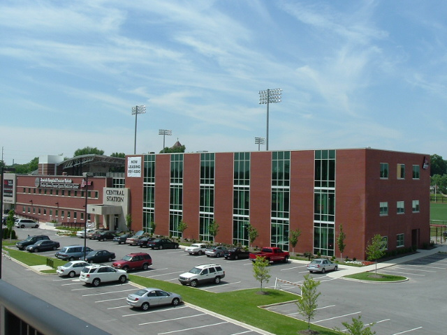 Picture of Jim Patterson Stadium and Jewish Hospital Sports Medicine Complex. Taken and uploaded by Jeffrey B. Morris on 6-6-06. All rights released.